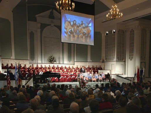 February 8, 2003. First Baptist Church, Lufkin, Texas. Reverend Robert L. Bush, Pastor, First Church of the Nazarene delivers an Invocation. NASA Administrator Sean O'Keefe, Governor of Texas Rick Perry, and NASA Astronaut Jeff Ashby participated in a memorial service to honor the Space Shuttle Columbia astronauts. O'Keefe thanked the community of Lufkin for their support and honored the crew of the Space Shuttle Columbia.